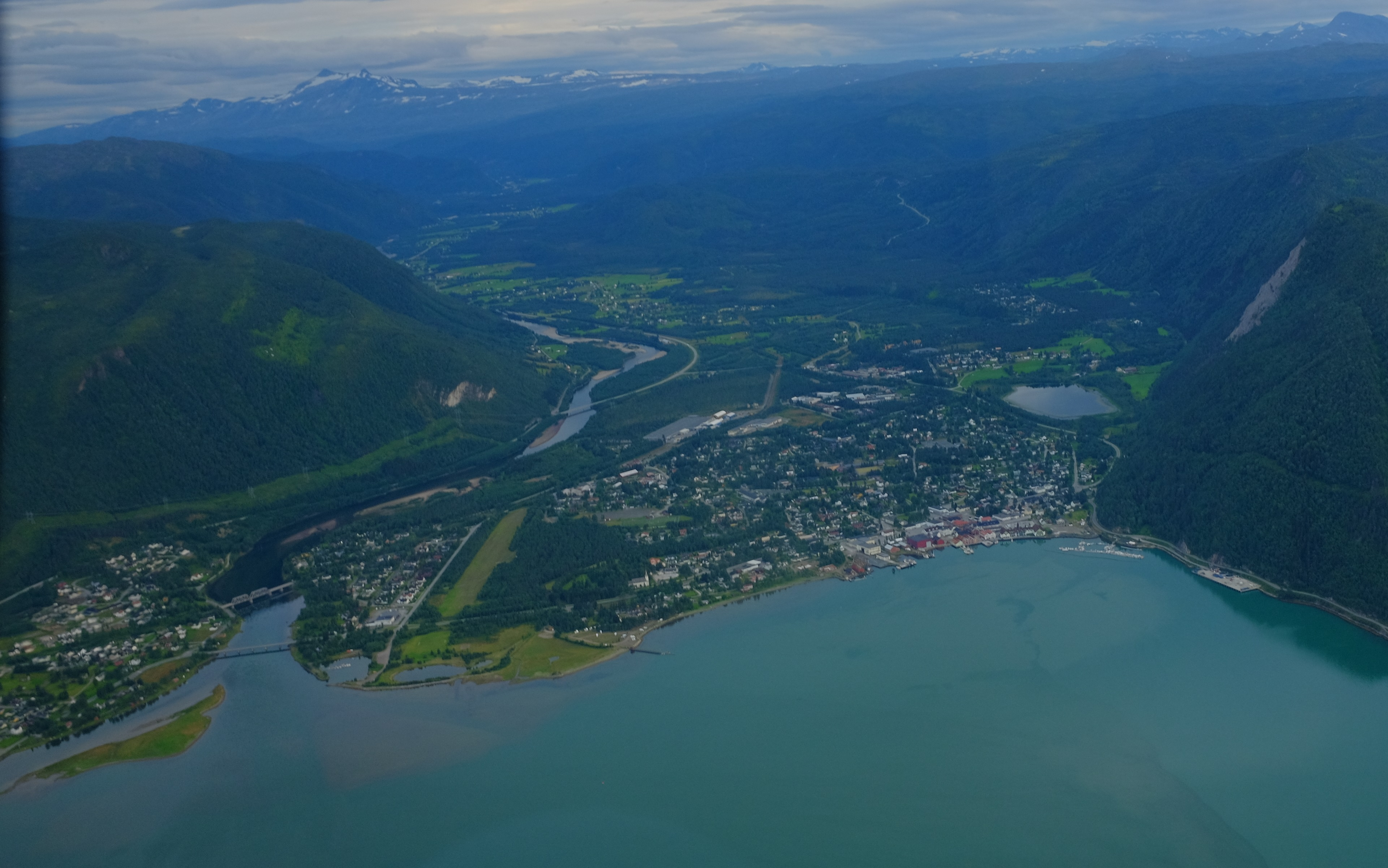 Saltelva, or Saltdalselva, is a river in Saltdal municipality in Nordland. It concludes Saltdalsfjorden at Rognan. Saltdalselva is part of the Saltdal River system, the third largest river in Nordland county. Watercourse is 78.1 km long, including Lønselva river, and has a catchment area of 1,544 km²